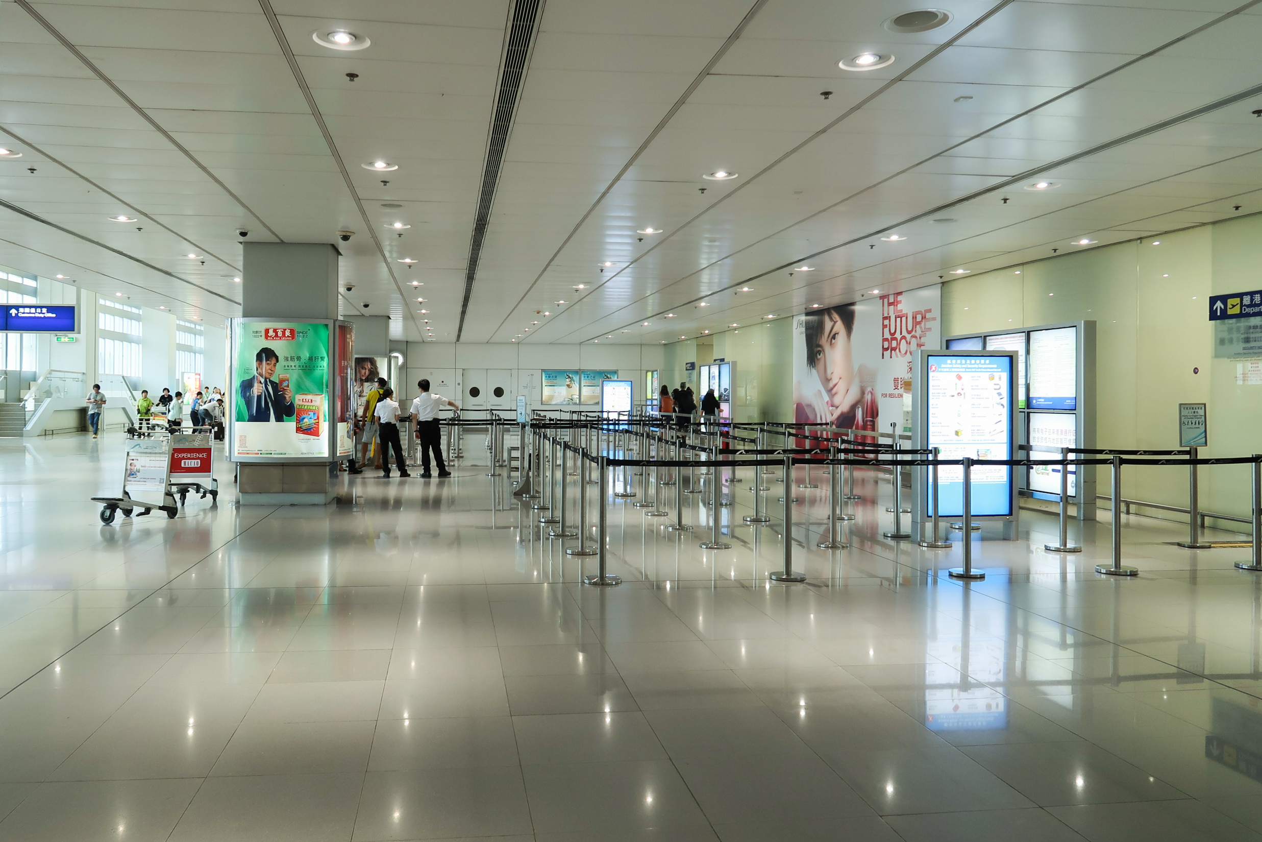 Hong Kong International Airport Terminal 2 Departure checkin